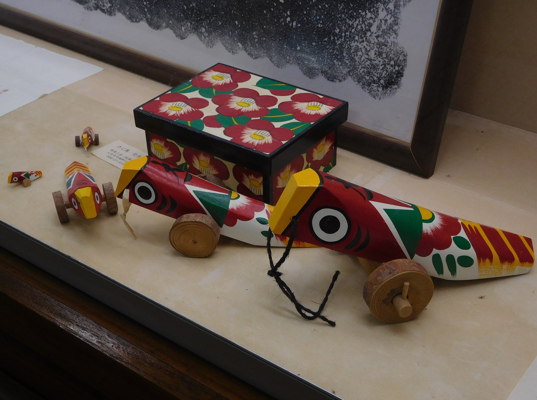 Kiji-Uma, is a Japanese Toy in Hitoyoshi City, Kumamoto Prefecture.